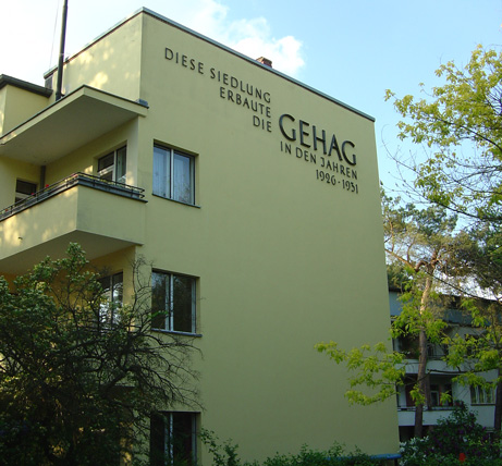 House in Onkel Toms Hütte, Berlin, Germany. Gehag was the company that created the Onkel-Tom-Siedlung. The sign says "Diese Siedlung erbaute die Gehag in den Jahren 1926-1931" - "This settlement was built by Gehag in the years 1926-1931."